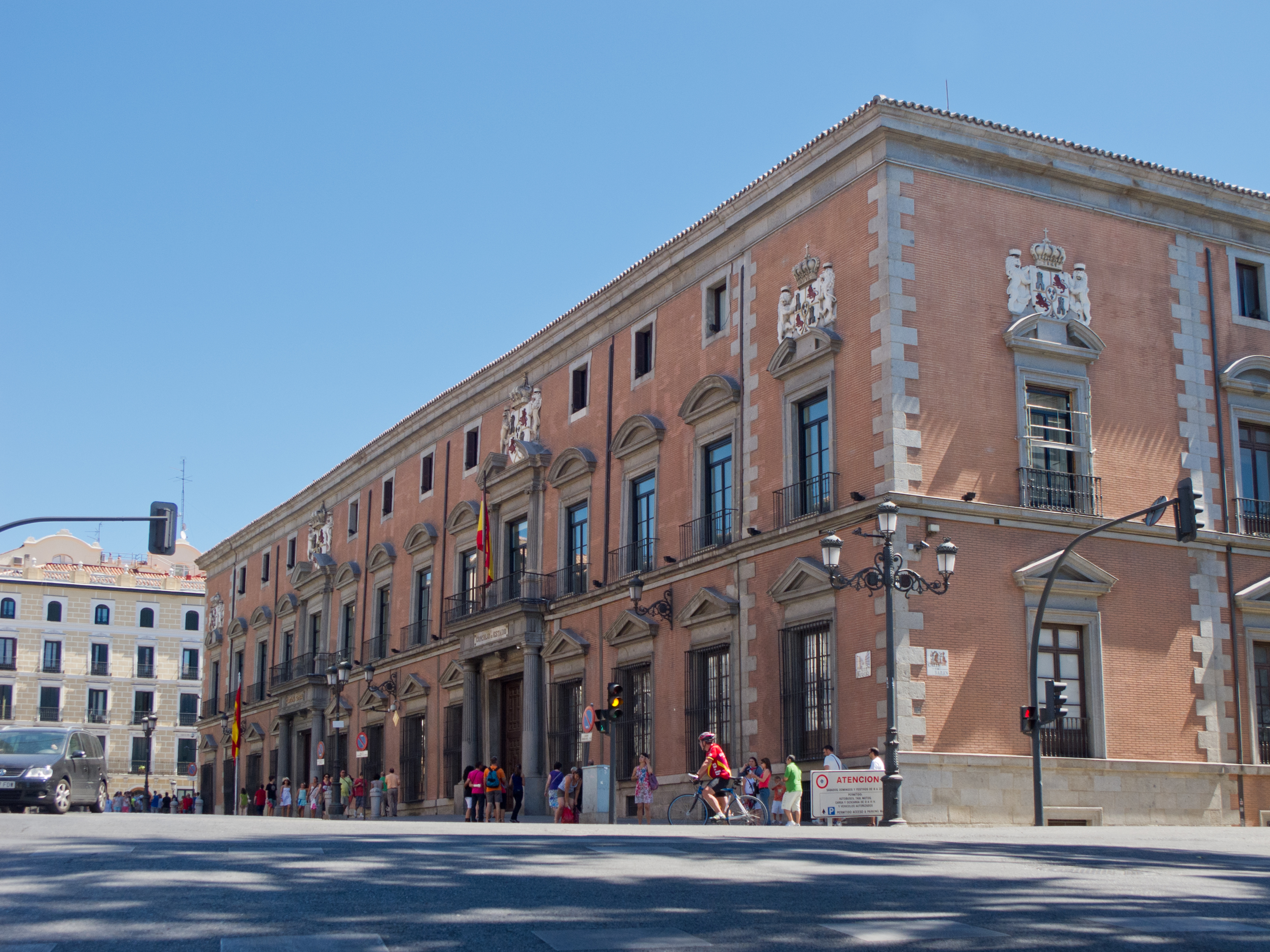 Palace of the Councils, Madrid, Spain.